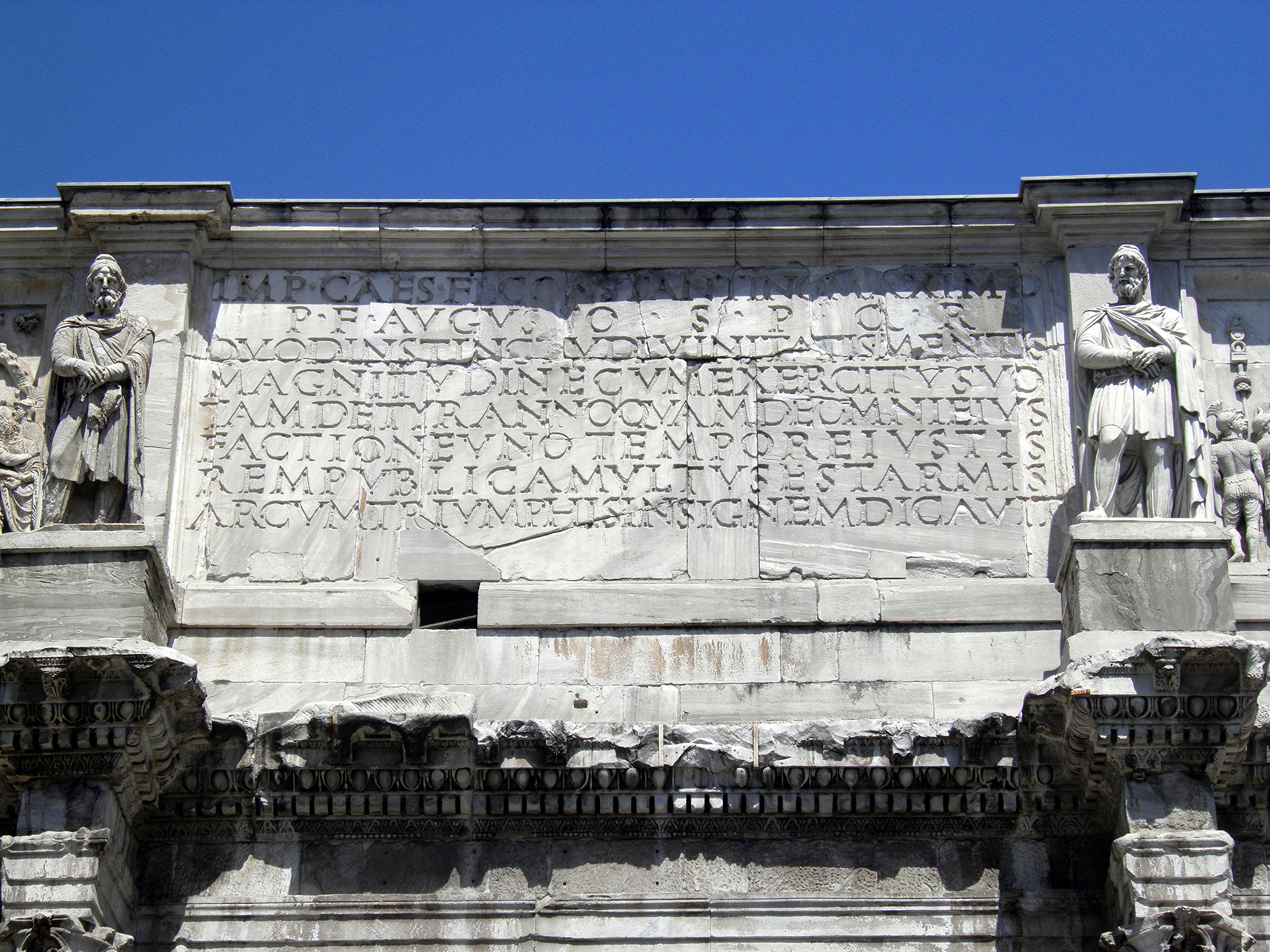 IMPERATORI CAESARI FLAVIO CONSTANTINO MAXIMO PIO FELICI AVGVSTO SENATVS POPVLVSQVE ROMANVS QVOD INSTINCTV DIVINITATIS MENTIS MAGNITVDINE CVM EXERCITV SVO TAM DE TYRANNO QVAM DE OMNI EIVS FACTIONE VNO TEMPORE IVSTIS REMPVBLICAM VLTVS EST ARMIS ARCVM TRIVMPHIS INSIGNEM DICAVIT To the Emperor Caesar Flavius Constantinus, the Greatest, pious, fortunate, the Senate and people of Rome, by inspiration of divinity and his own great mind with his righteous arms on both the tyrant and his faction in one instant in rightful battle he avenged the republic, dedicated this arch as a memorial to his military victory.